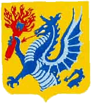 Emblem of the USAAF 389th Bombardment Group